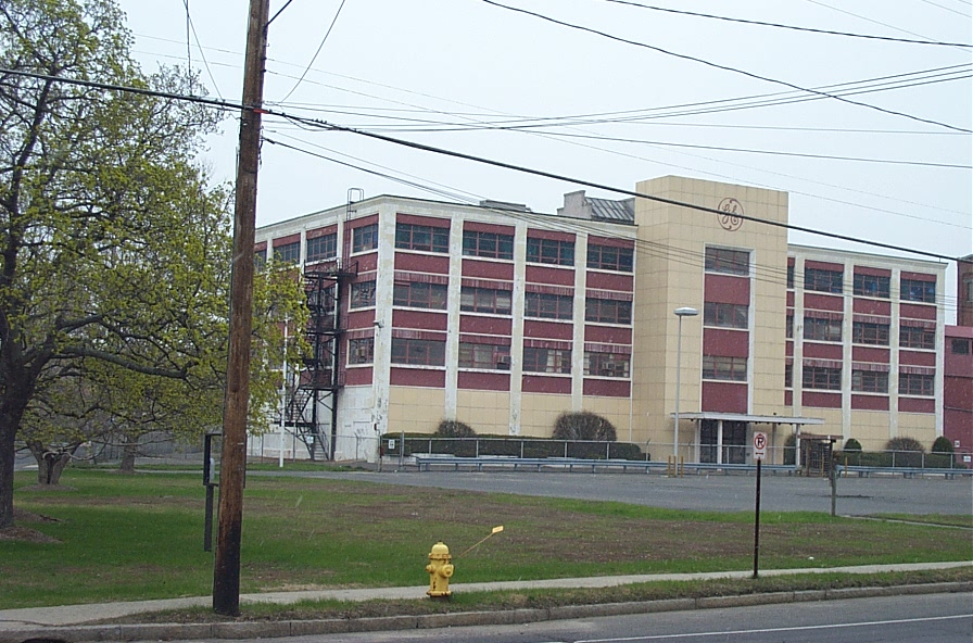 View of Building 34 of the former General Electric manufacturing complex in Pittsfield, Massachusetts. Built 1910, demolished 2003. GE's Pittsfield complex was extensively contaminated with PCBs and other chemicals between the 1930s and 1970s, and subsequently was designated as a "Superfund" cleanup site by US EPA in 1997. EPA and GE began a massive cleanup of the site and the adjacent Housatonic River in 2000.